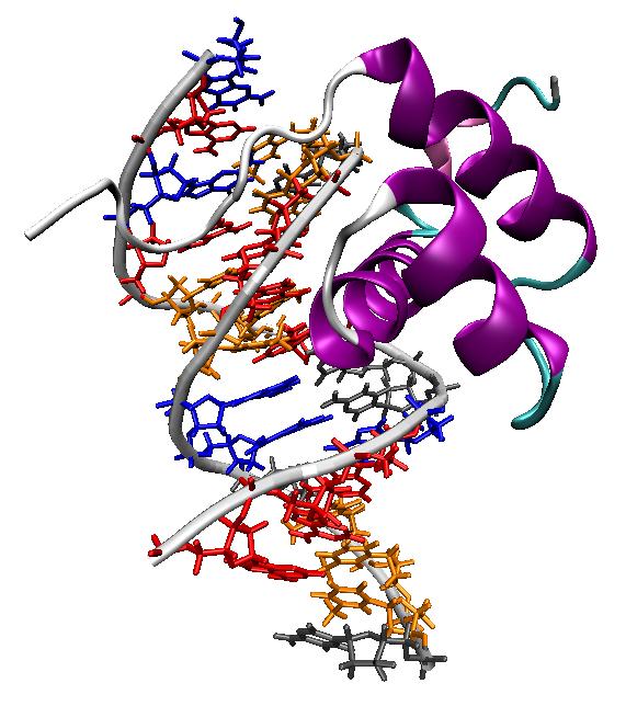 The Antennapedia homeodomain protein from Drosophila melanogaster bound to a DNA fragment, illustrating the binding interactions of the recognition helix and unstructured N-terminus with the DNA major and minor grooves.